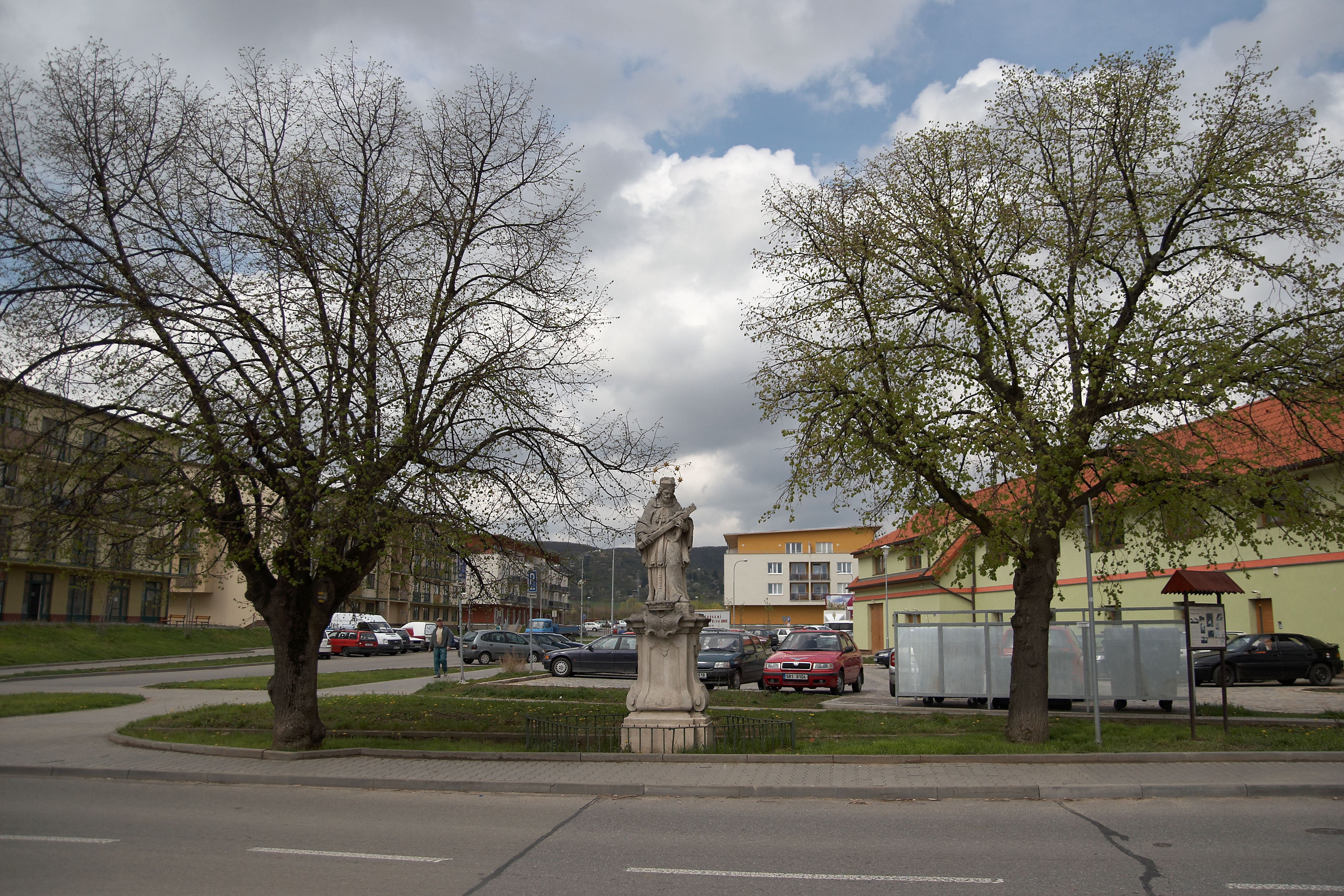 Brno Medlánky, statue of St. John Nepomucene